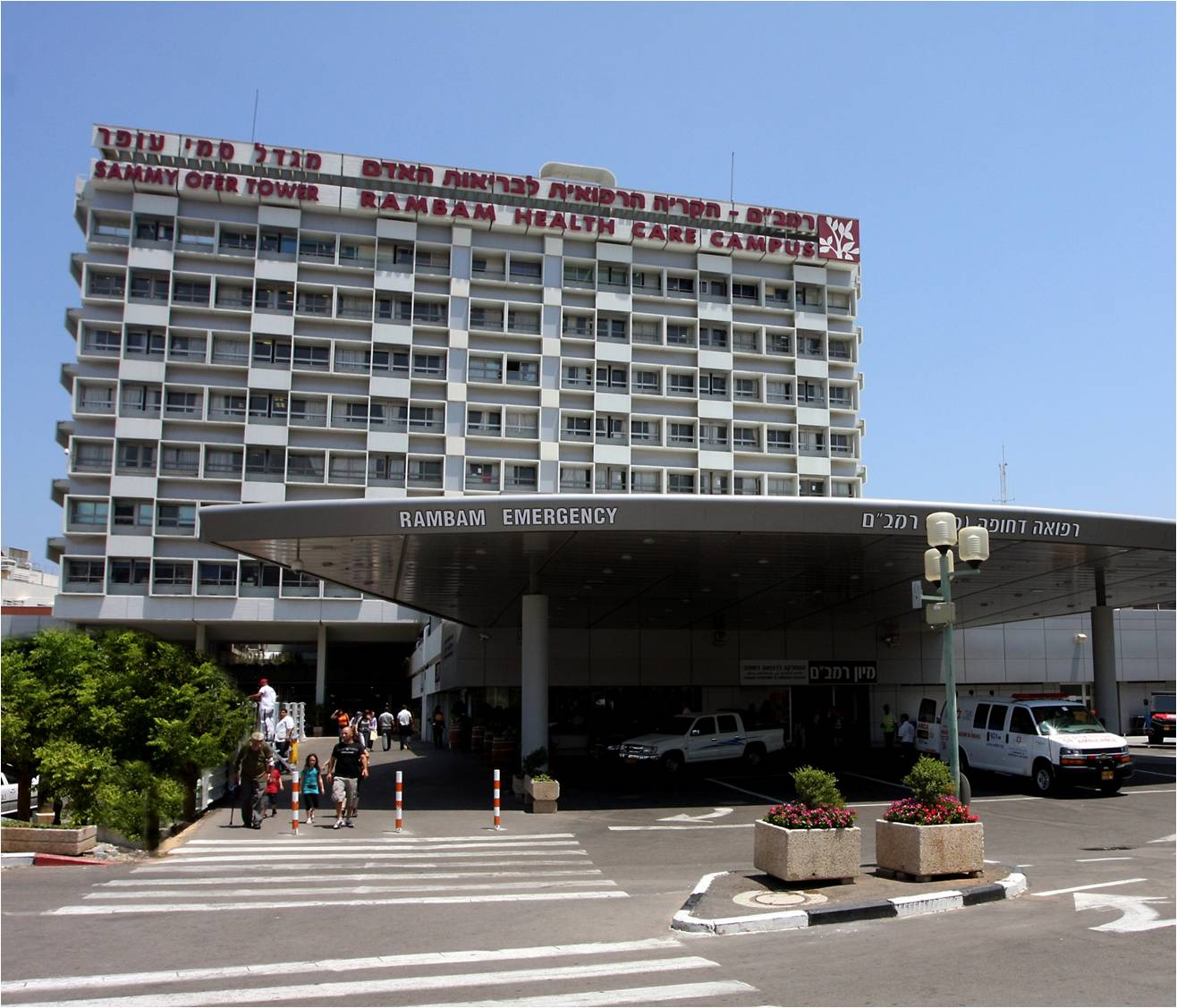 main building including the new fortified dept. of emergency medicine